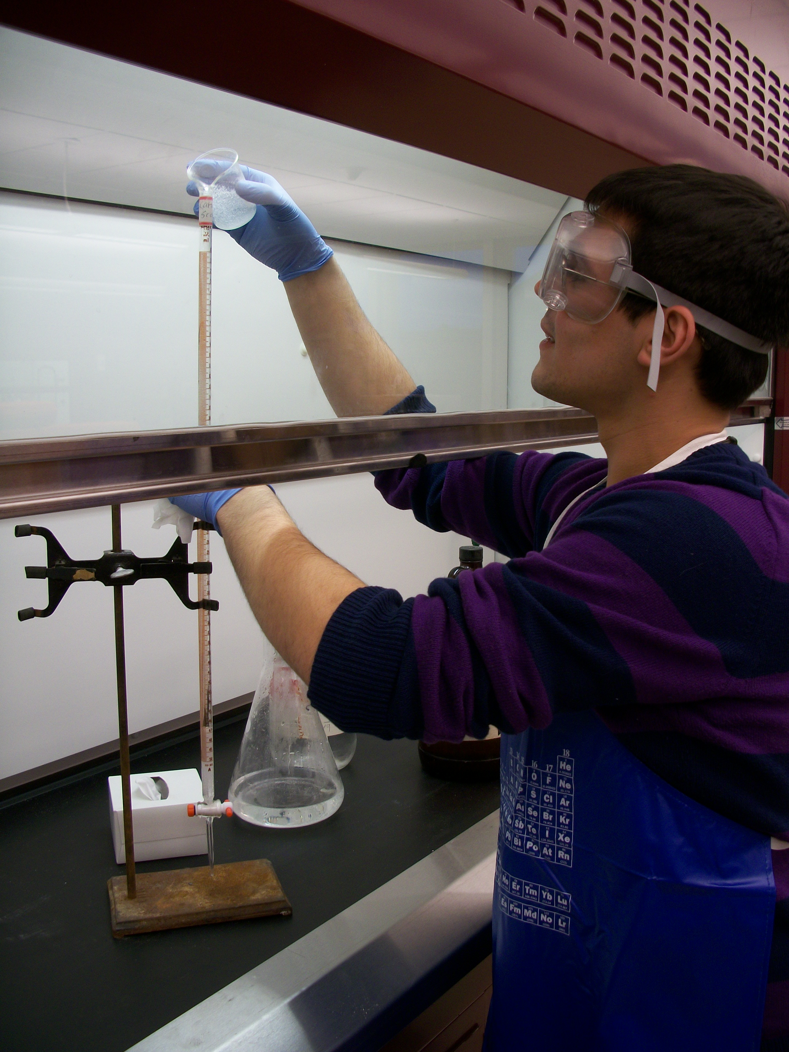 Senior undergraduate John Proetta filling a burette inside a fume hood in the chemistry lab.